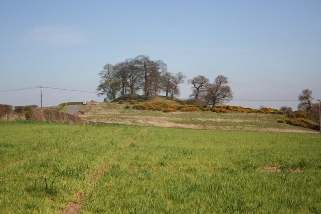 Bothamsall motte The motte of a small motte & bailey castle overlooking the River Meden